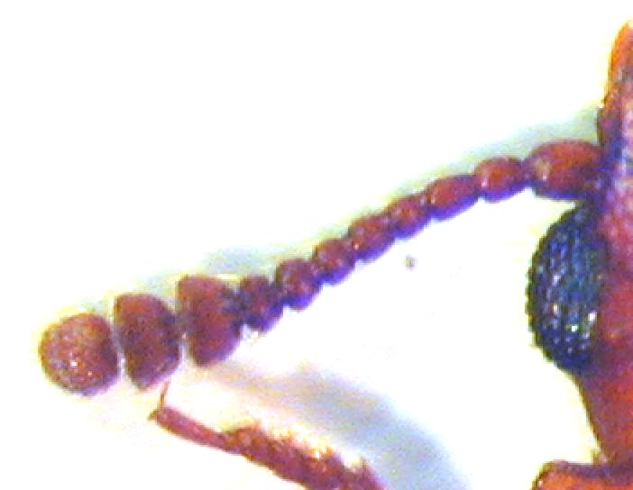 Antennae morphology: clavate (Coleoptera: Erotylidae)